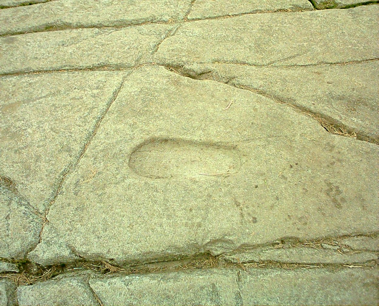 Dunadd footprint, Kilmartin Glen, Scotland Author: Wojsyl, August 2002